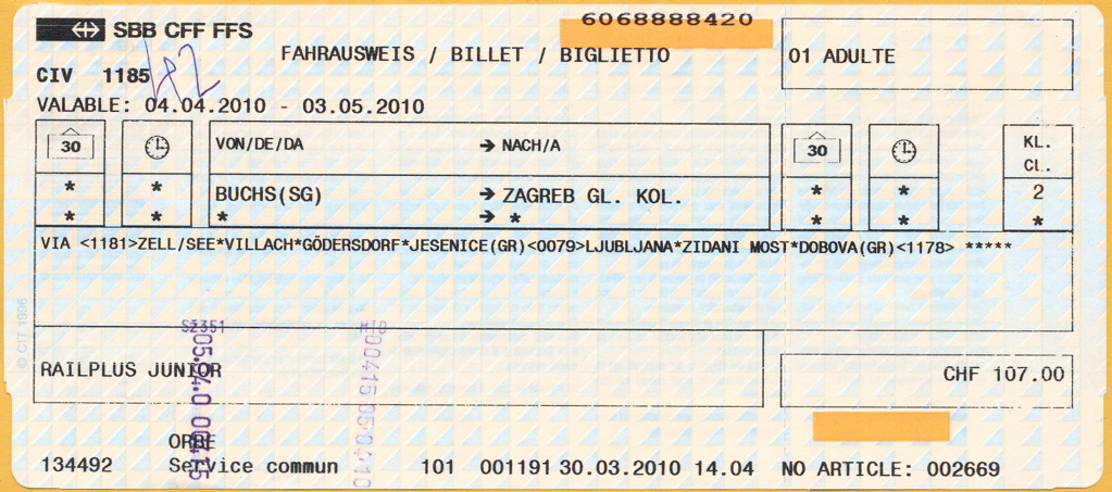 Railway ticket Buchs SG (Switzerland) - Zagreb (Croatia), issued at Orbe (Switzerland).